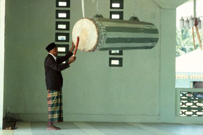 Pounding the drum to call the people to the mosque for the friday praying, Tulehu